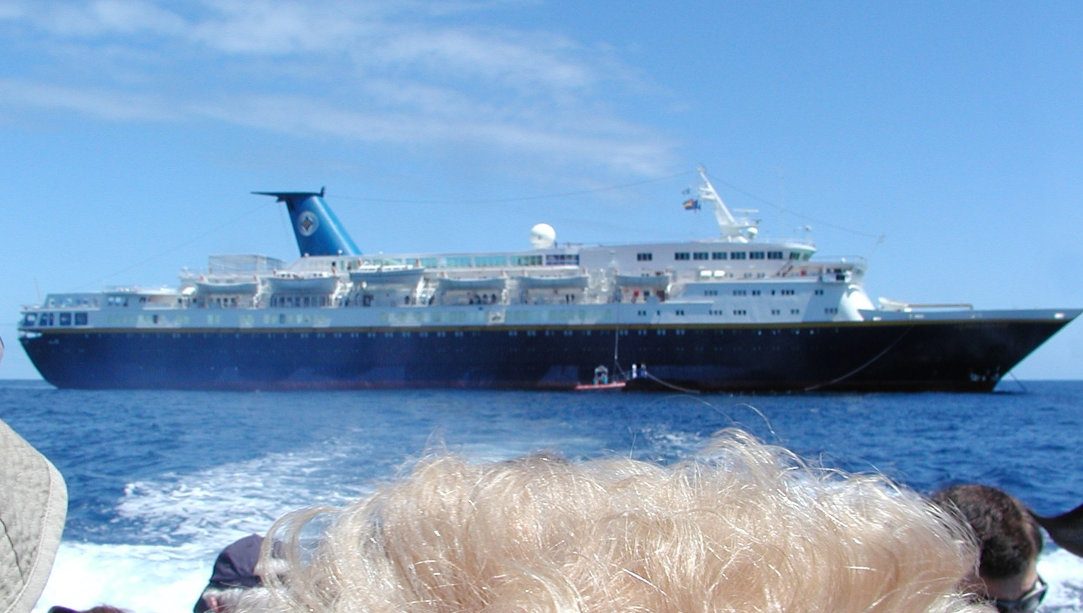 Olympic Countess, the ship for the eclipse, from a Zodiac to Bazaruto Island, Mozambique